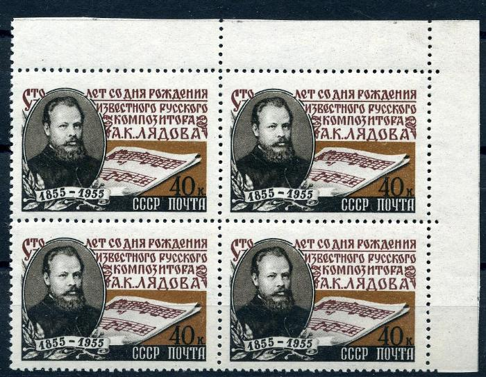 Stamp of the Soviet Union, 1955. Postage stamp block. Russian composer Anatoly Lyadov. CPA #1843.